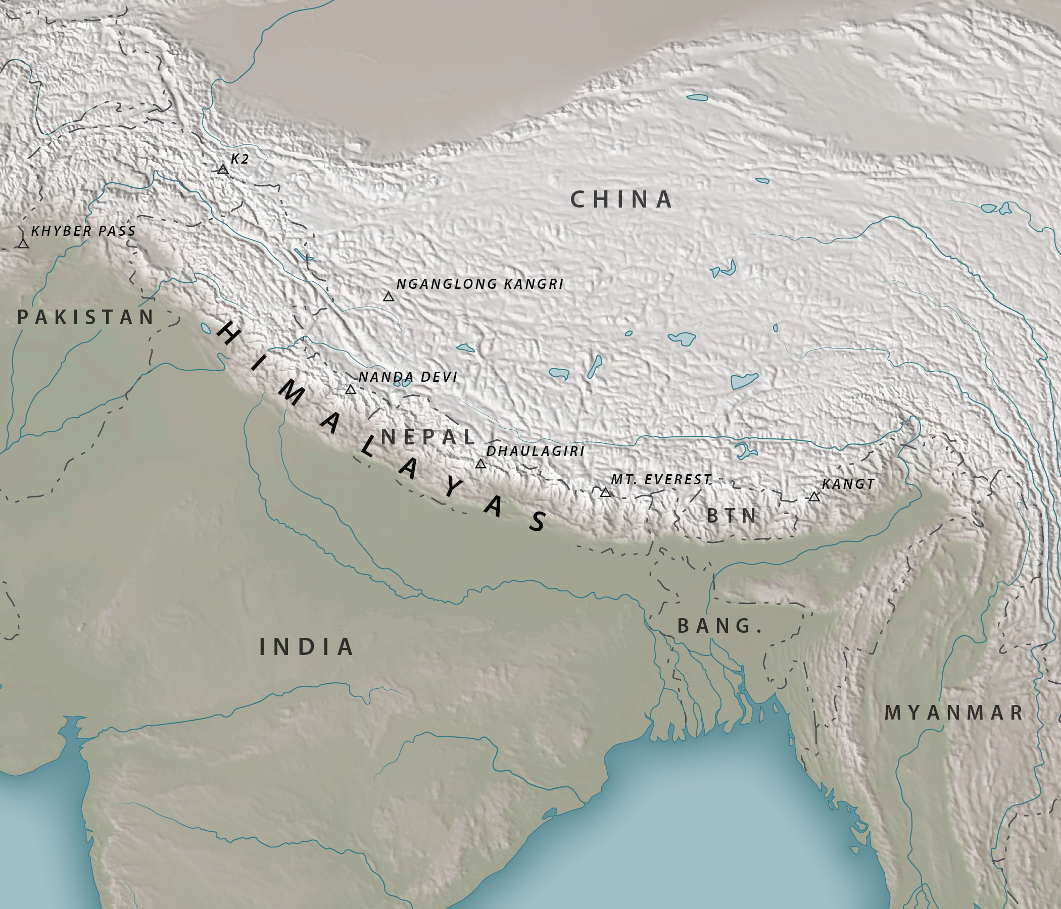 General reference map of the Himalayas. Map created at 1:18,000,000 scale. Elevation data GMTED, vector data Natural Earth. Tools used to create: Adobe Illustrator, Adobe Photoshop, Natural Scene Designer, Terrain Texture Shader, Terrain Sculptor. Part of the FixWikiMaps project. Courtesy of .